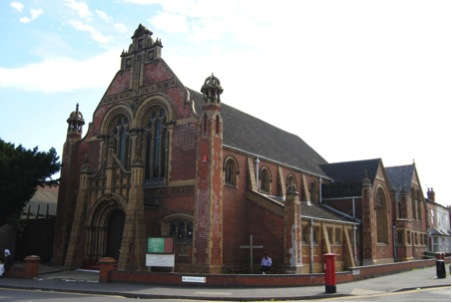 Edward Road Baptist Road, Birmingham, England